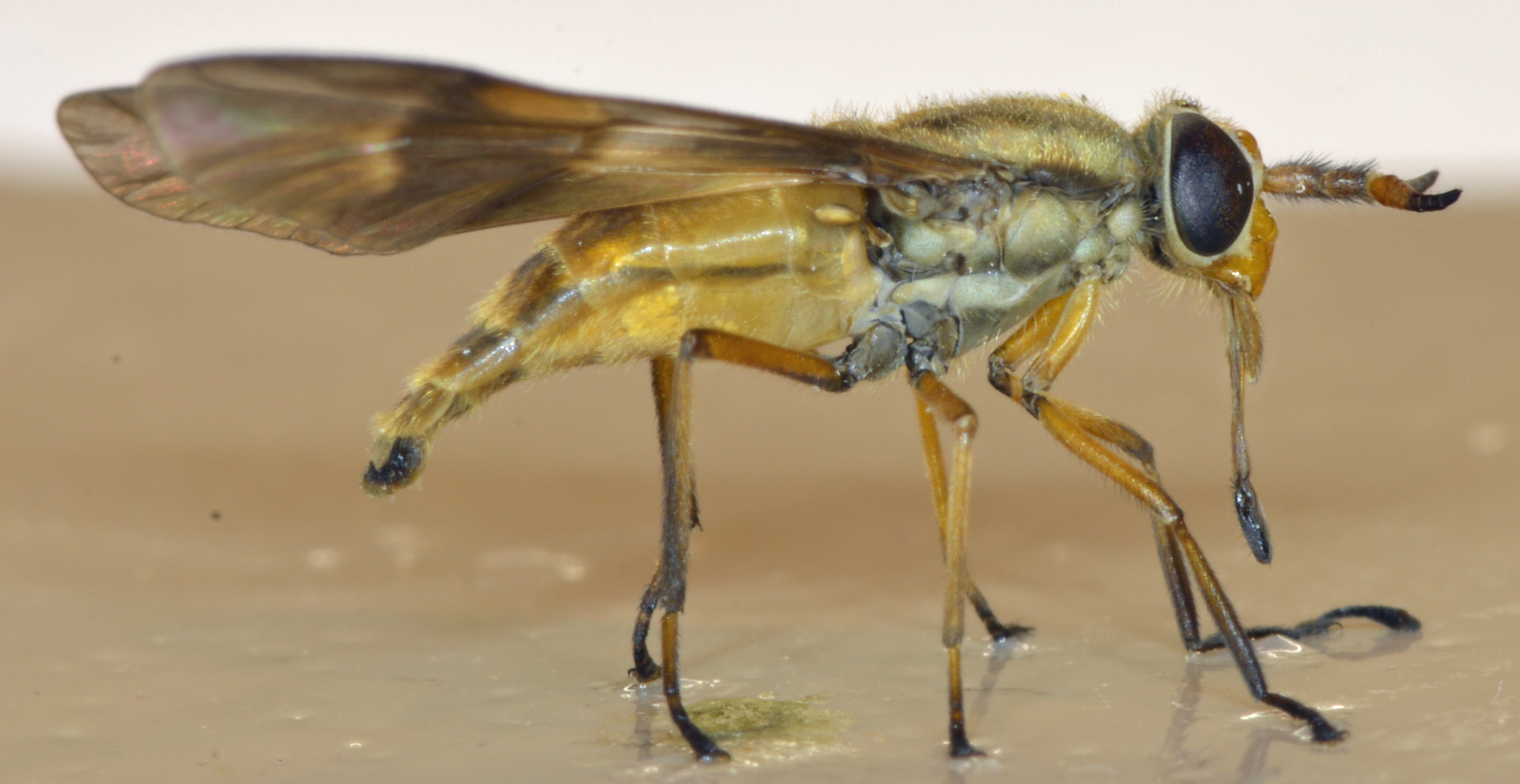 Deerfly from coastal Georgia, US - may be Chrysops vittatus